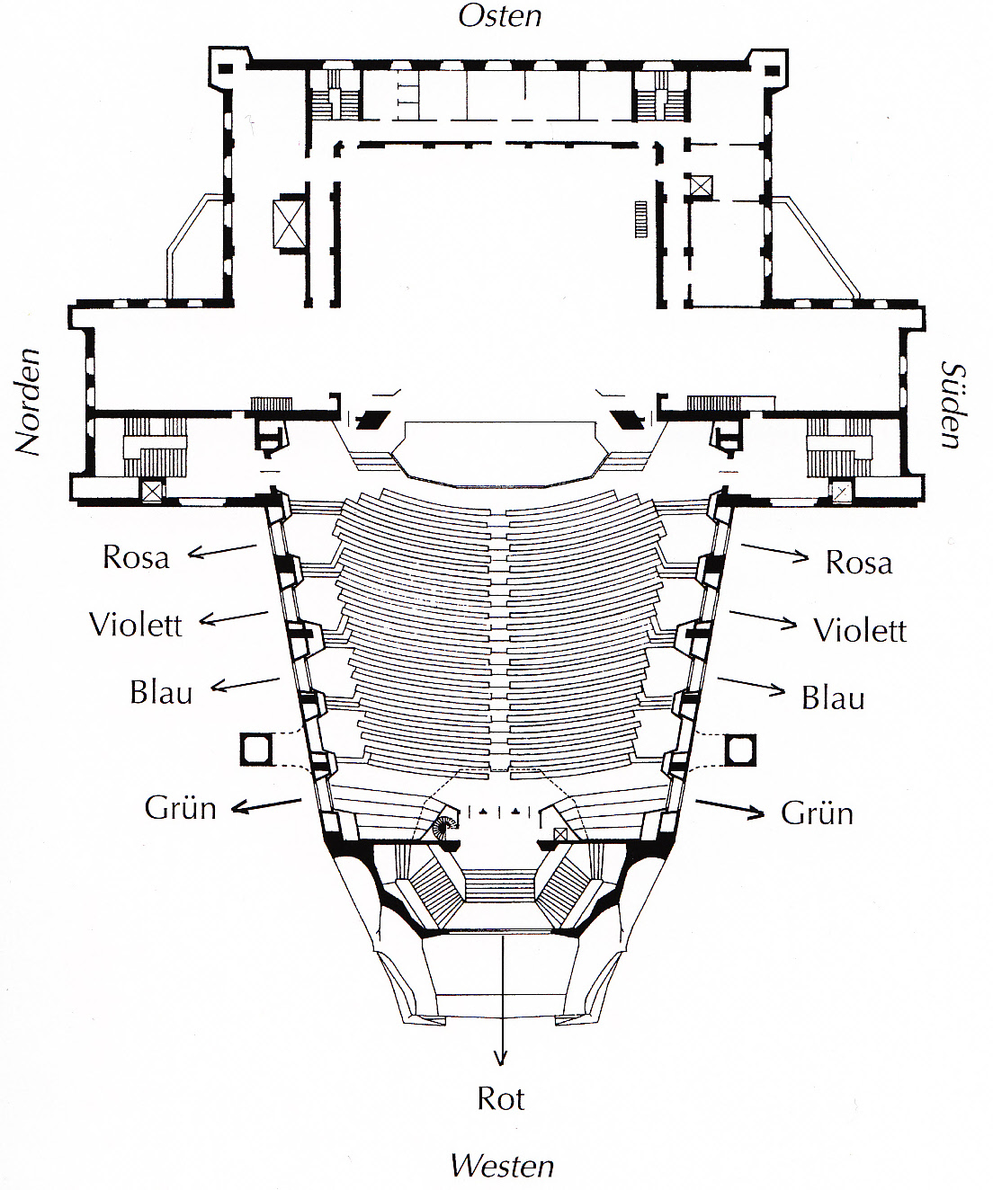 Footprint of the Great Hall of the Goetheanum